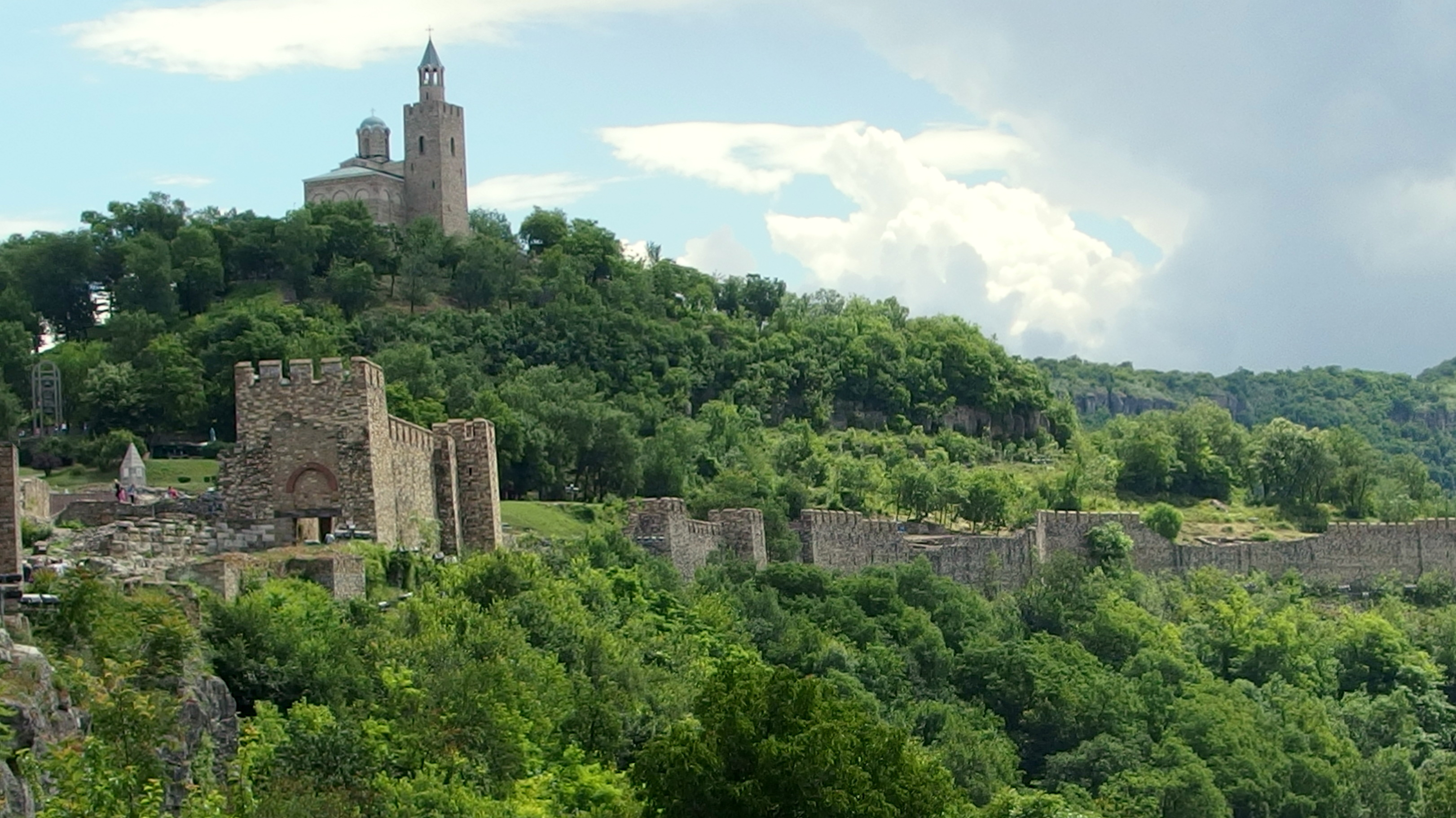 2014-06-21 in Veliko Tarnovo.